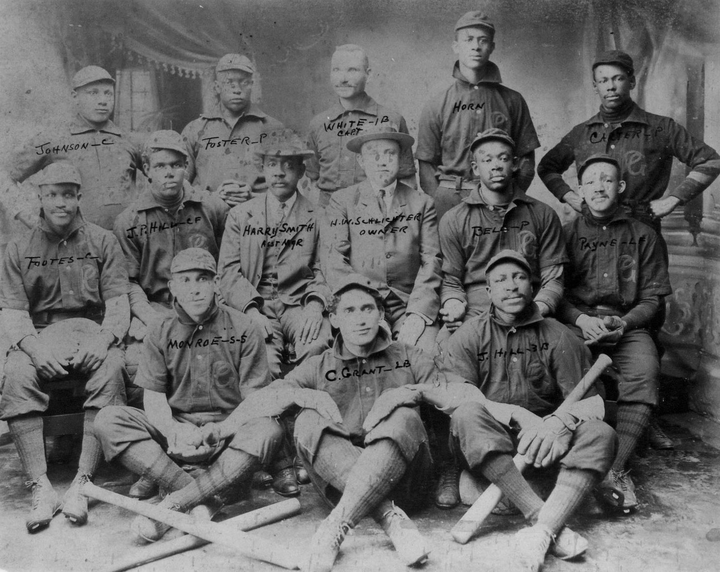 A team photo of the 1904 Philadelphia Giants Negro league baseball team, including Hall of Famers Rube Foster, Sol White, and Pete Hill.